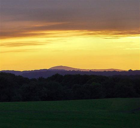 Picture is the same as " Sunset over Sugarloaf Mountain - Maryland" with the black border removed.